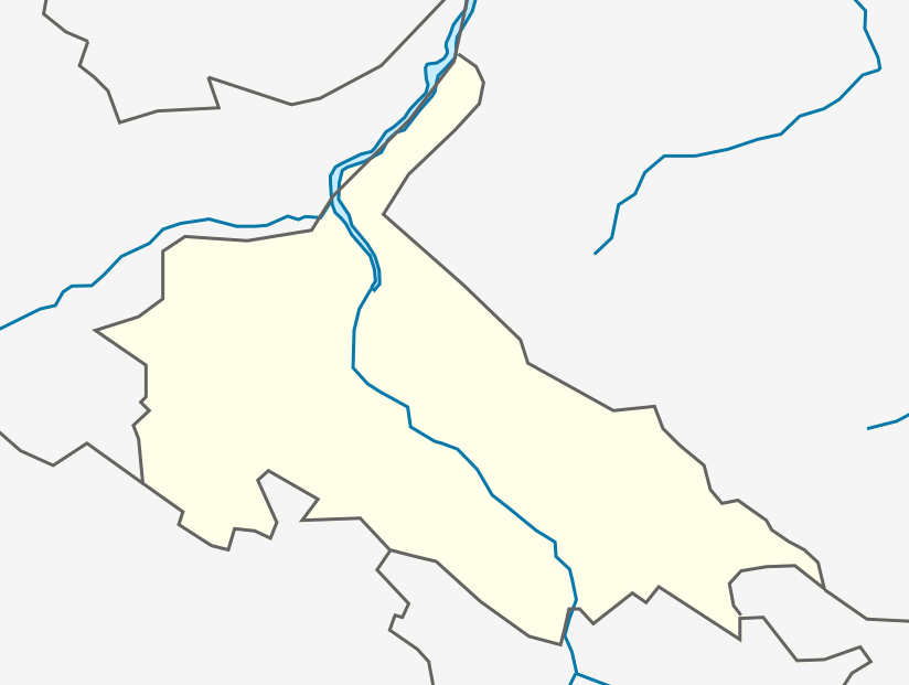 Outline map of Untsukulsky District (with position on the map of Dagestan)